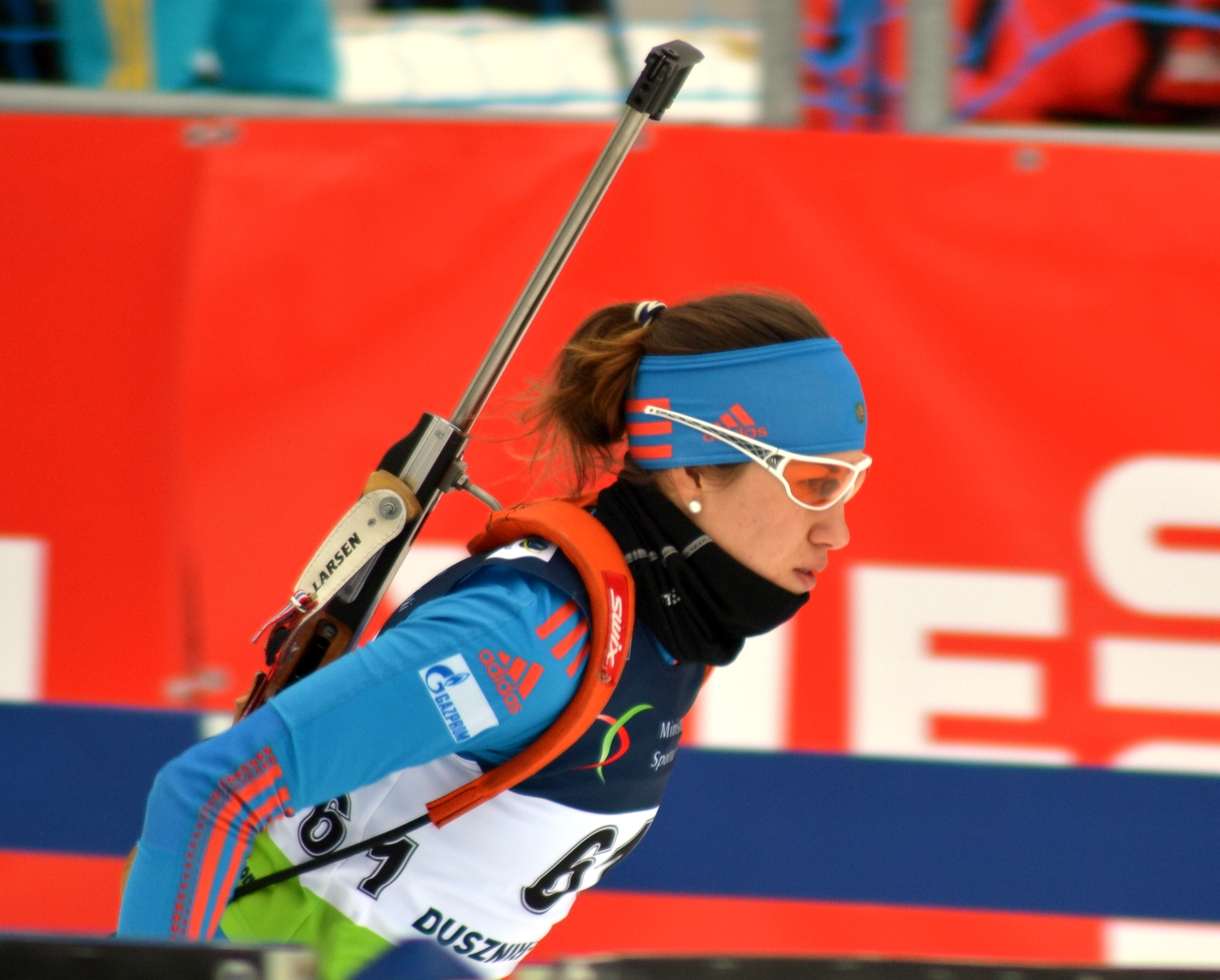 Open European Championships Biathlon 2017, Individual Women's race, held on January 25th.